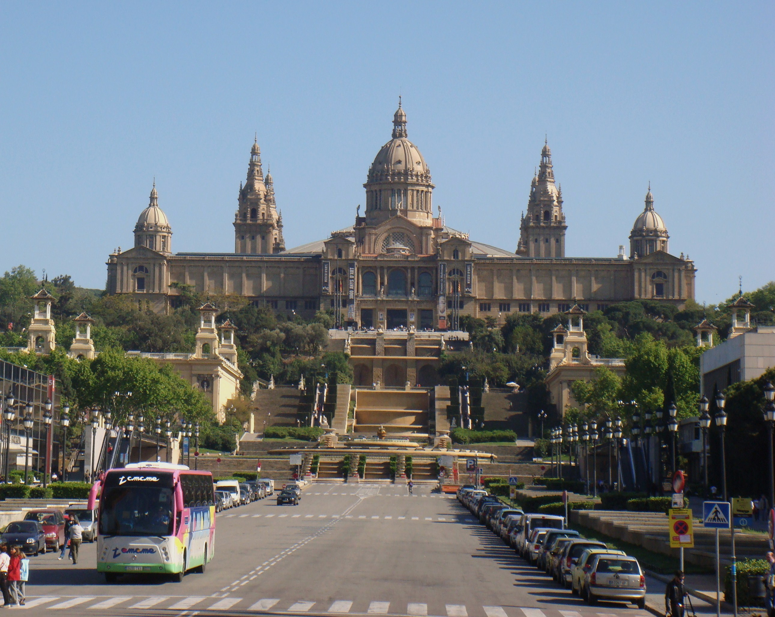 National Museum of Art of Catalunia Barcelona Spain